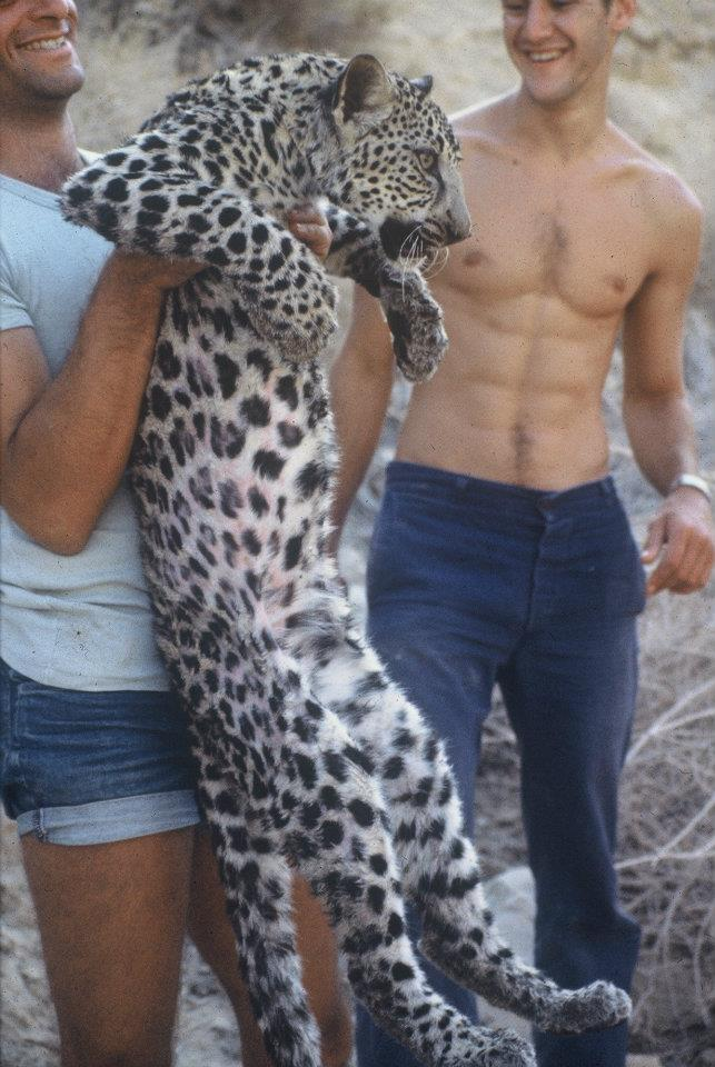 Leopard in the Judean desert photographed by